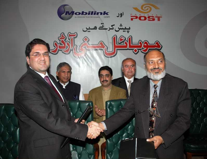 Ahsan Basir Sheikh (right) at the signing ceremony of Mobilink Mobile Money Order Service